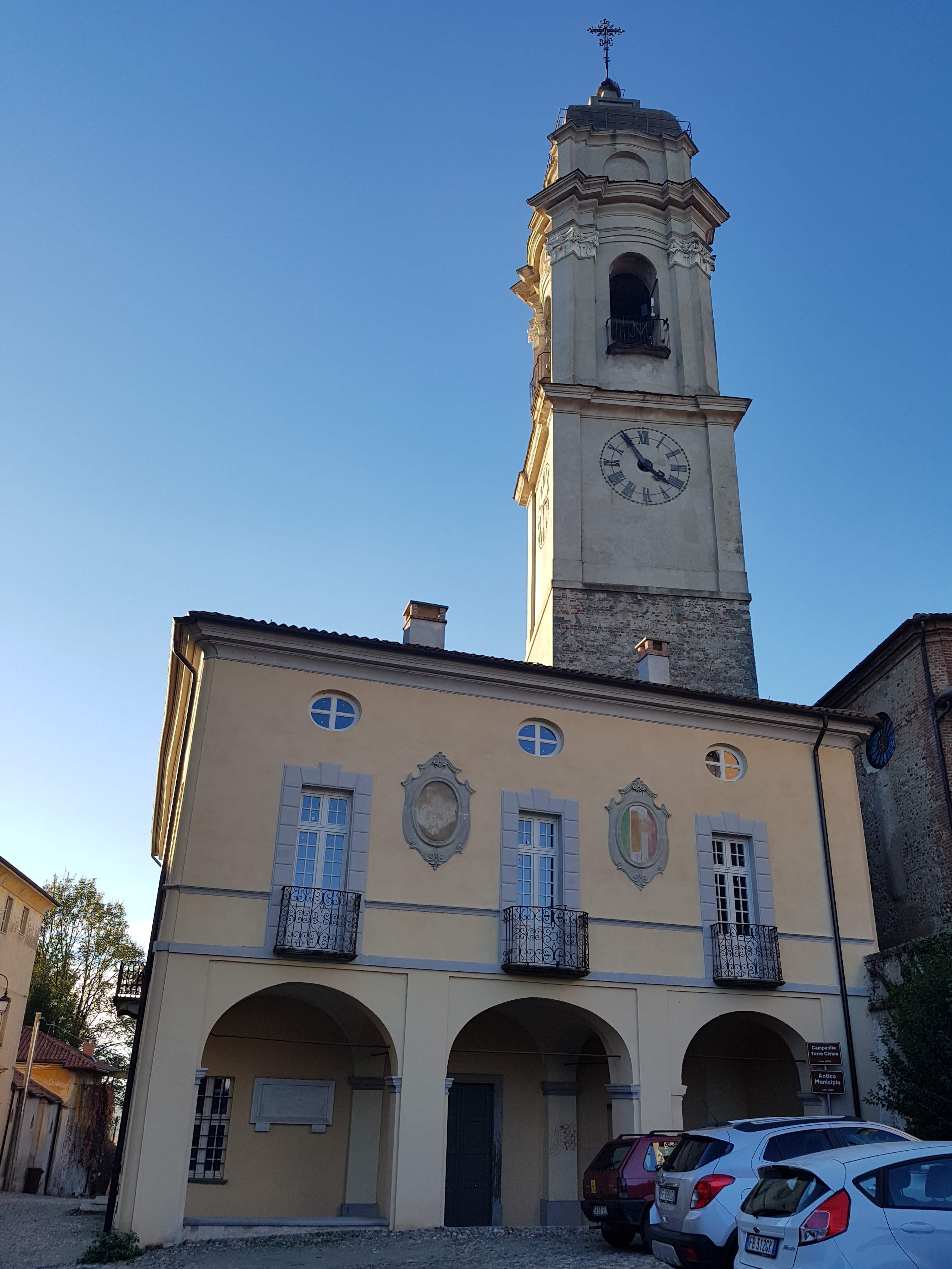 Ancient Town hall and Bell Tower, Mazzè, Northern Italy